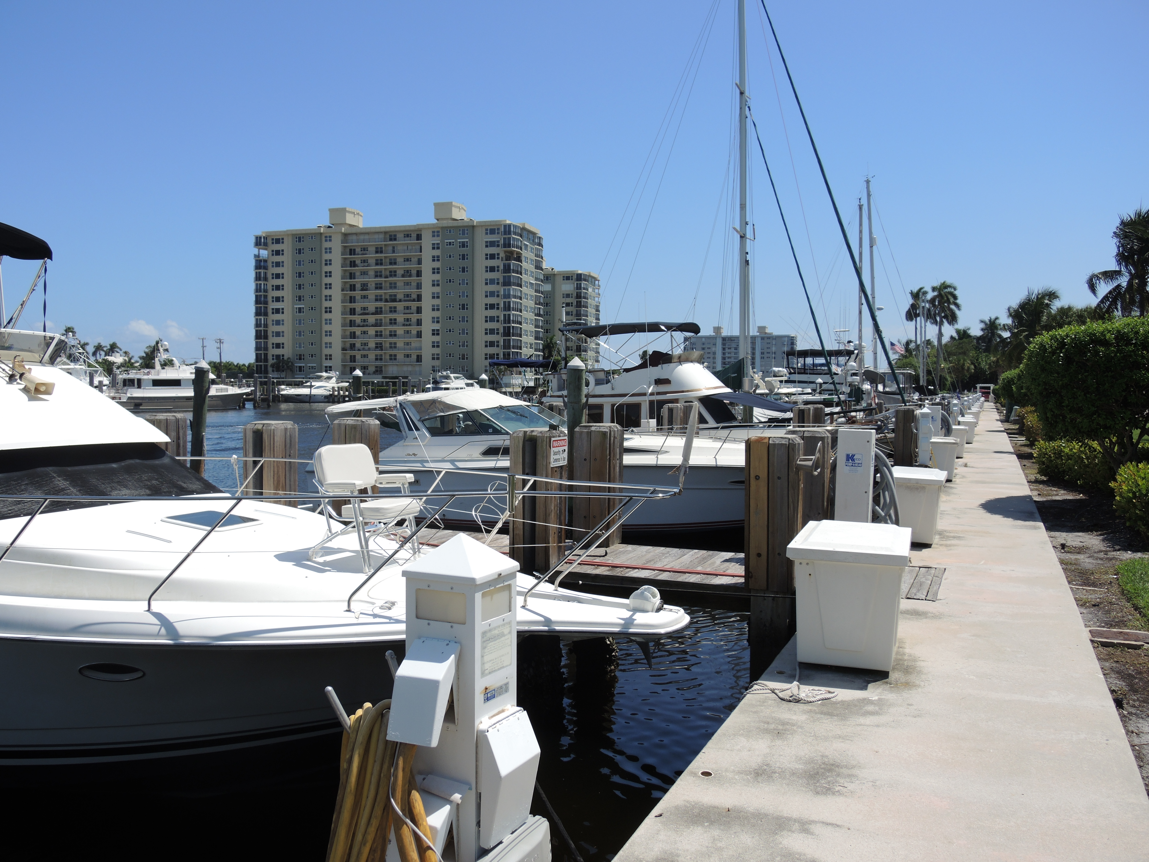 Marina Historic District